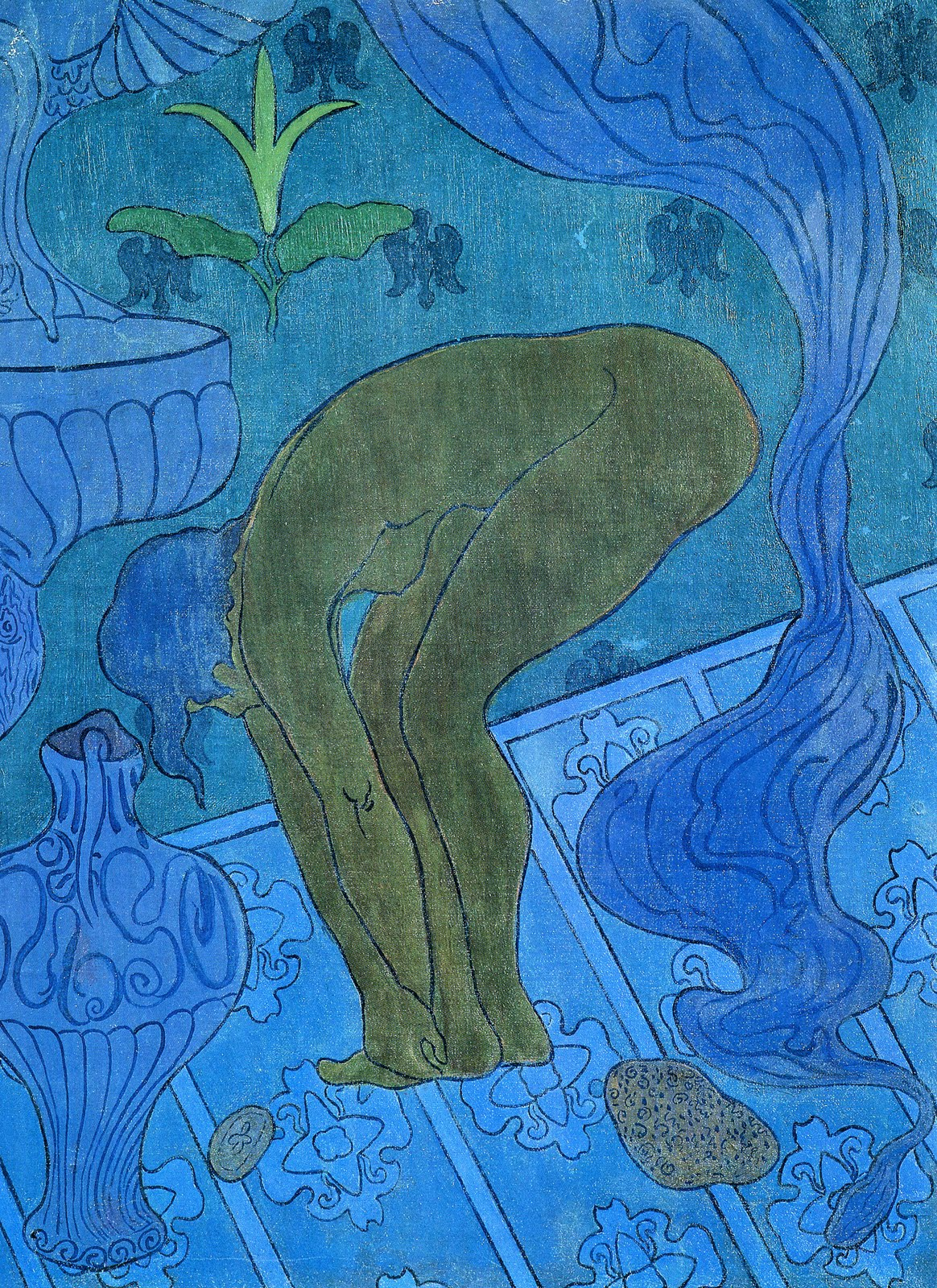 The blue bather